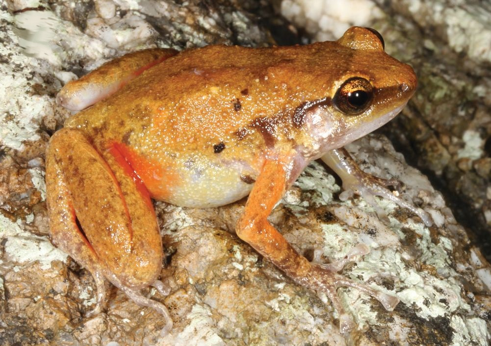 Cophixalus zweifeli male